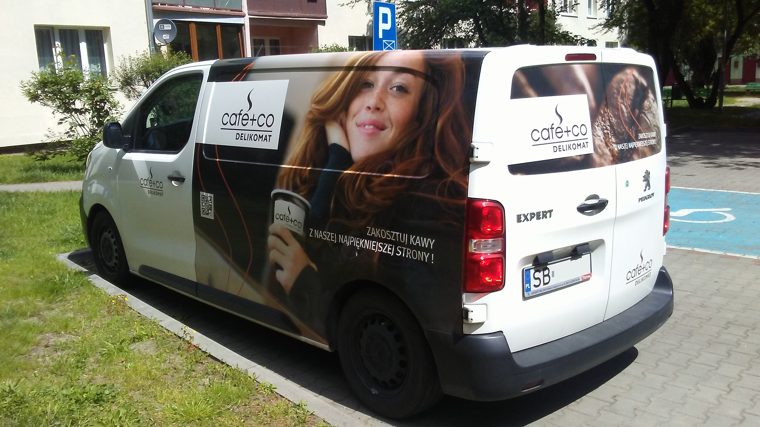 Austrian Cafe+Co service vehicle in Tomaszów Mazowiecki